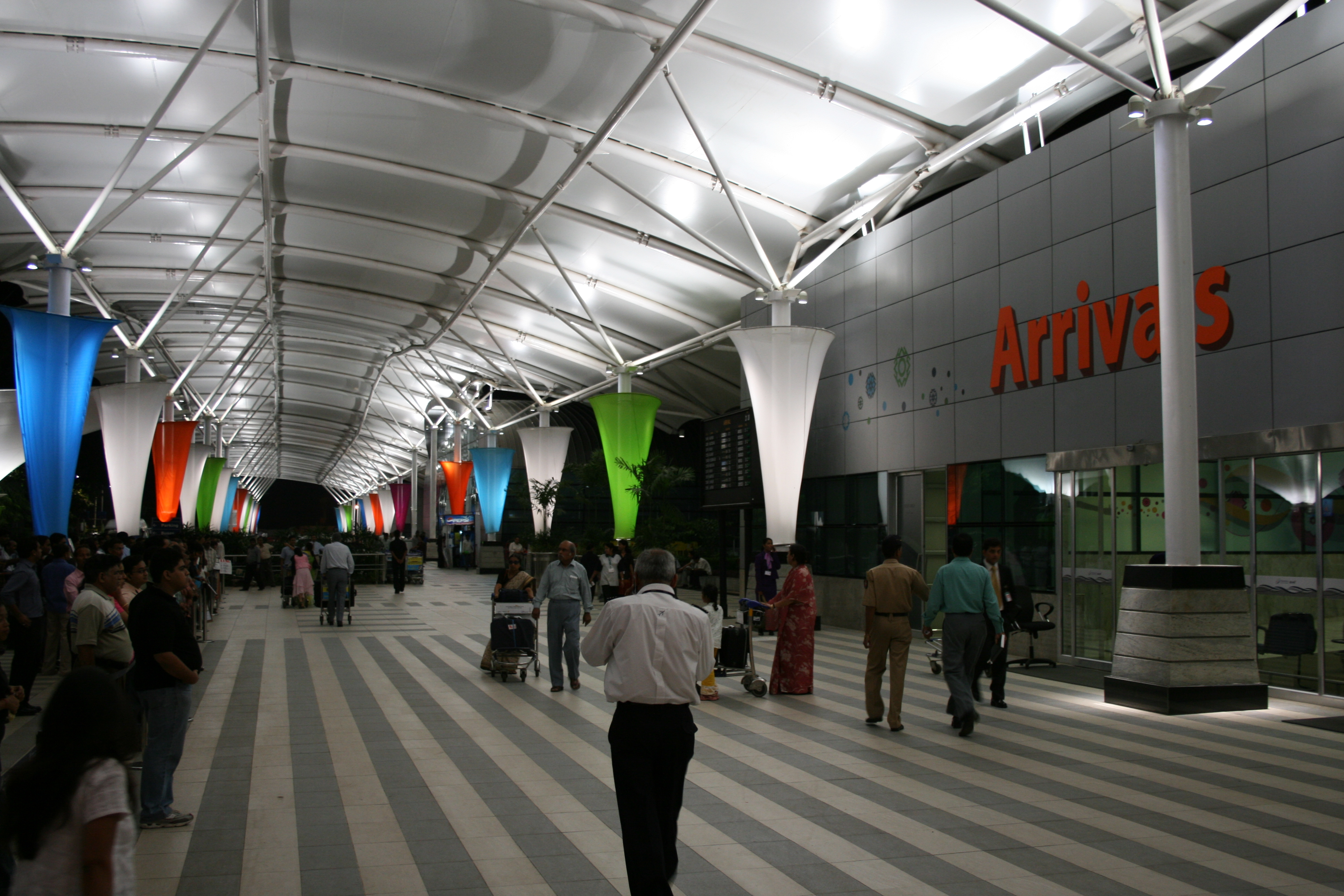 Domestic arrivals.